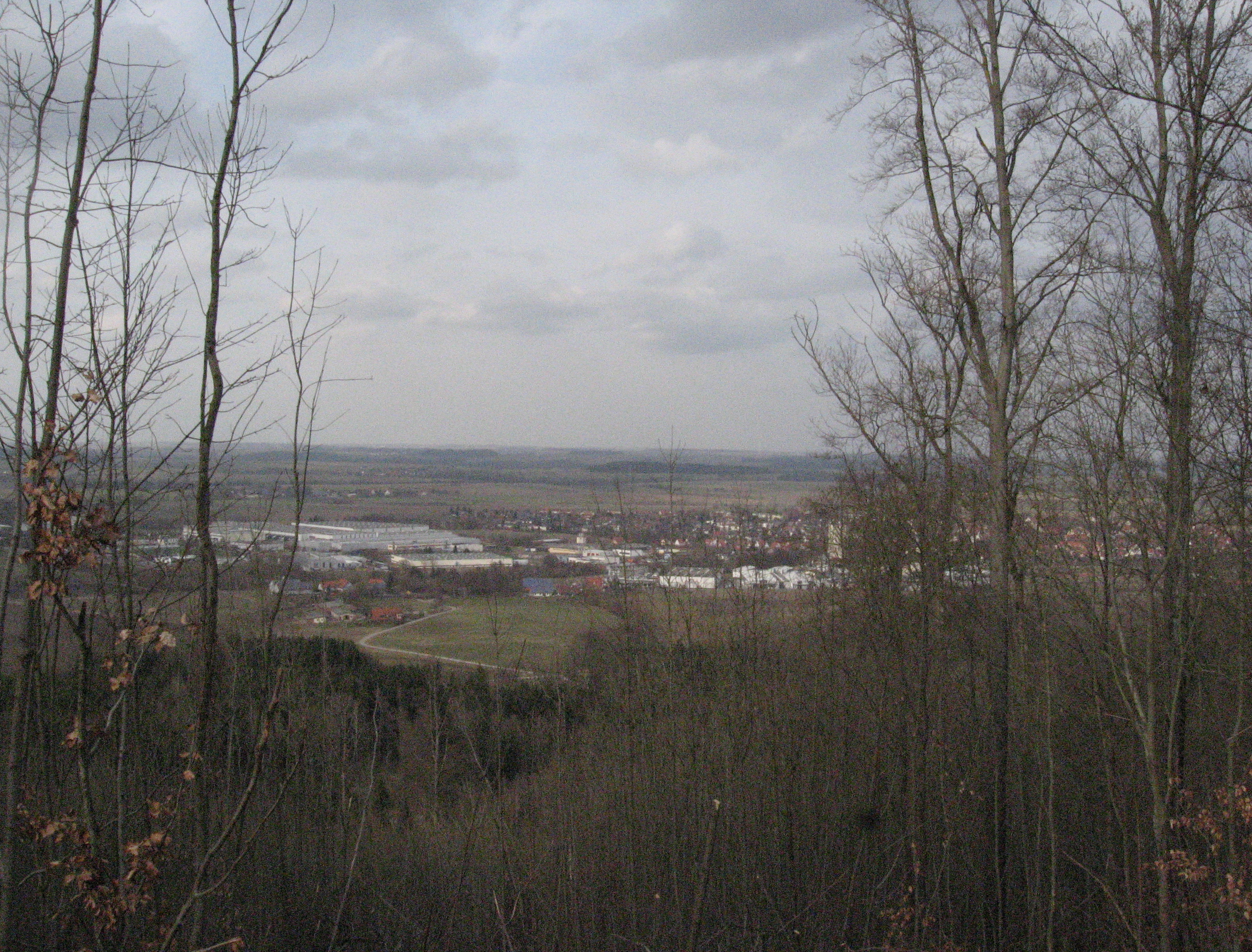 View from the border of the high plain of the Hehlberg to the North showing the industrial area of Schwäbisch Hall-Sulzdorf und the Haller Ebene behind.